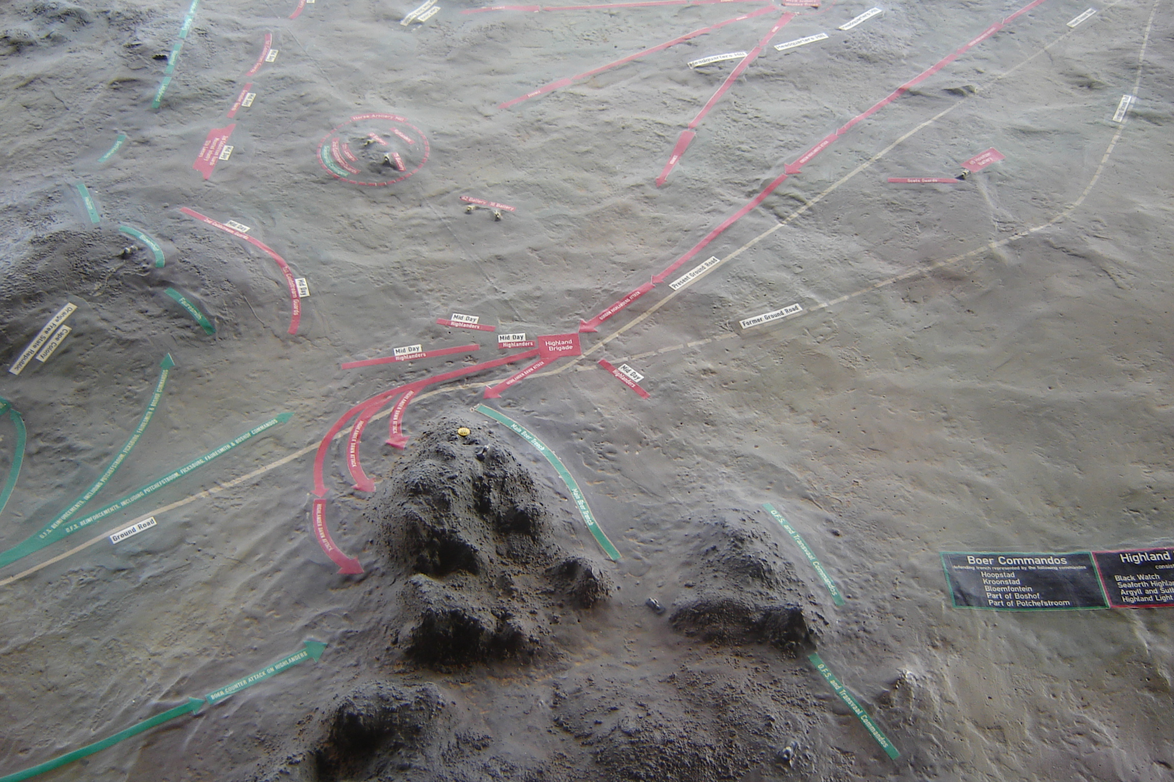 This is a photo of the relief model at the Magersfontein museum depicting troop movements during the Battle of Magersfontein.